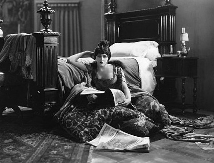 Still from The Prisoner of Zenda (1922).